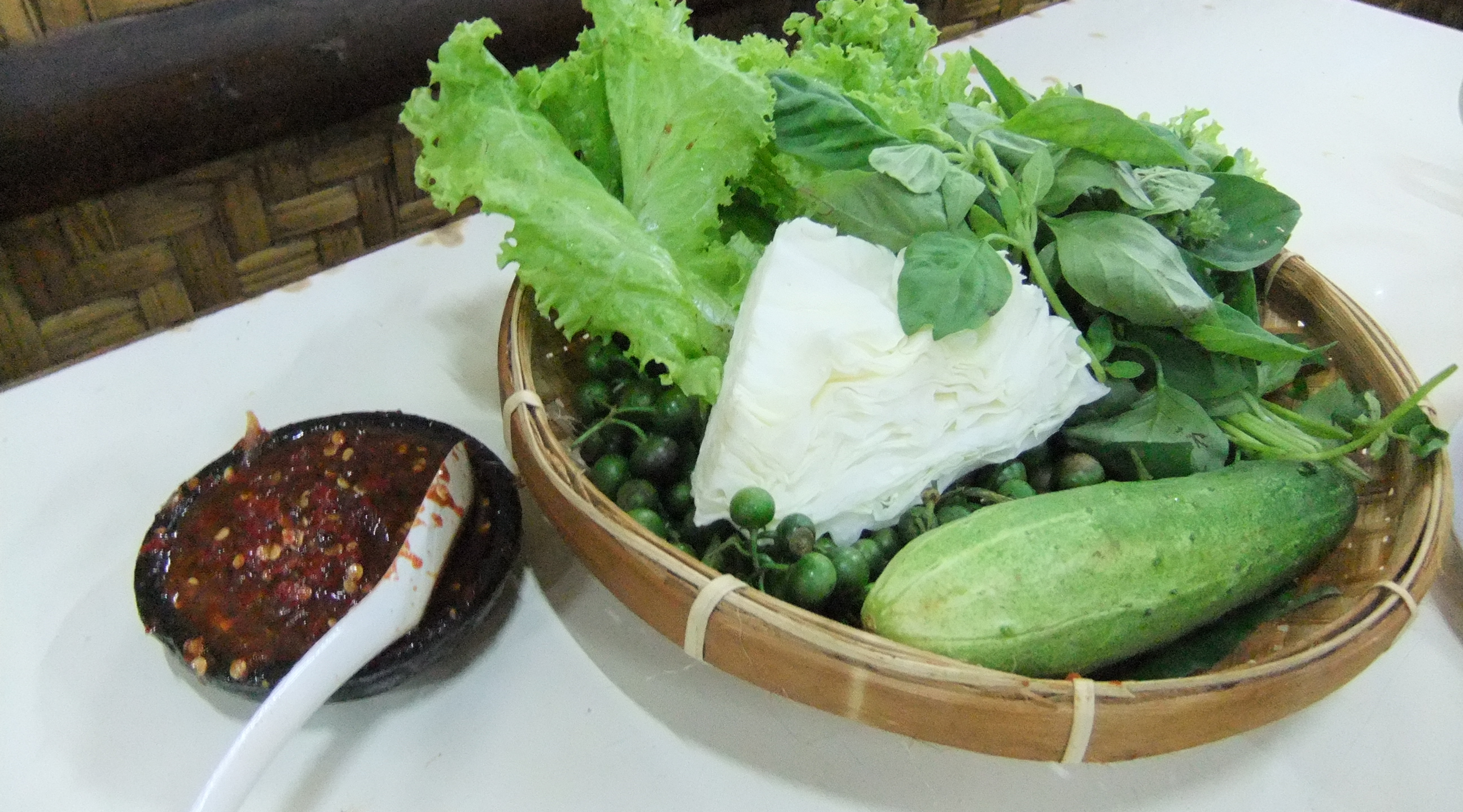 Lalapan, fresh vegetables of Sundanese Cuisine